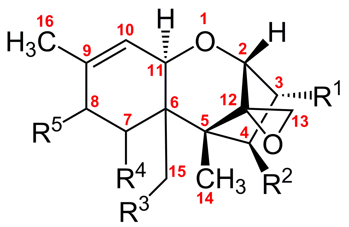 Chemical structure of Trichothecenes Mycotoxin. User:Fk drew this figure. I release this as PDF. 12/24 2005. Merry Christmas.